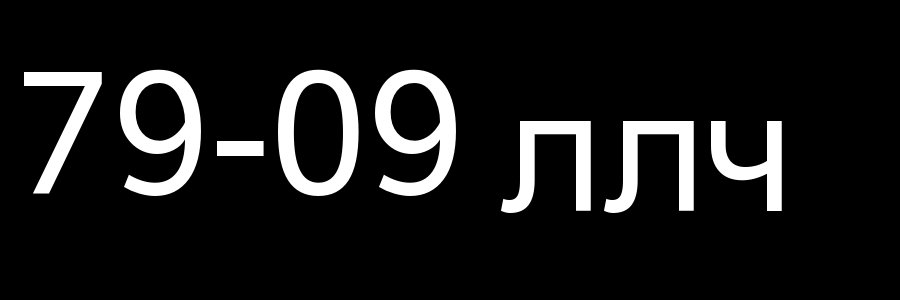 1958-1980 used plates in Lithuanian SSR, in Soviet Union.